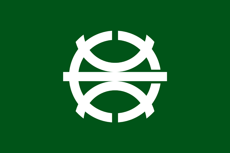 Flag of Suzuka, Mie